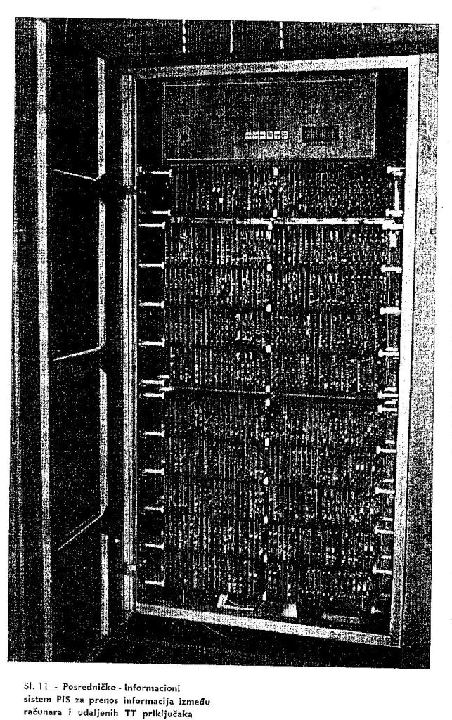 This photo is from my book: Racunari TIM, p.166, NK Belgrade 1990